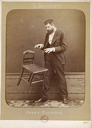 French spirit photographer Édouard Isidore Buguet (1840-1901) demonstrates telekinesis in this hoaxed 1875 photograph titled Fluidic Effect. Buguet was arrested the same year for faking his ghost photographs and he served a year in prison. [1] The publishing year and year of the photographer's death are over 100 years, making this image suitable for public domain use in every country.